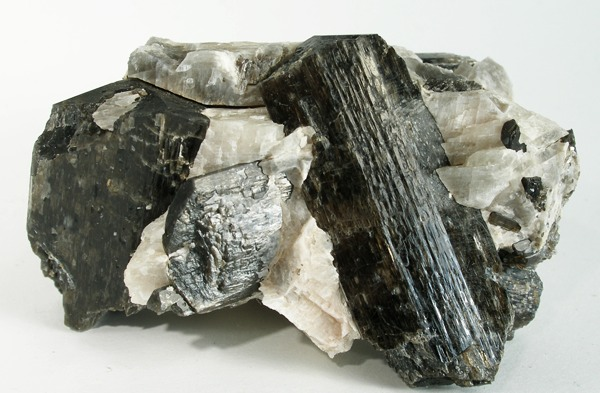 Fluororichterite, Calcite Locality: Earle's Farm Fluororichterite occurrence, Wilberforce, Monmouth Township, Haliburton County, Ontario, Canada (Locality at ) Size: 6.6 x 4.4 x 3.8 cm. Fluororichterite is a very rare amphibole group species. This fine combination specimen is from the well-known Earle’s Farm occurrence in Ontario. Brilliant, grayish-black, preferentially striated fluororichterite prisms are set in contrasting calcite matrix. The prominent large crystal in front is 4.7 cm and is doubly terminated, with no damage. Highly representative combo material from this noted locale.